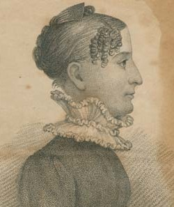 Benjamin B. Wisner. Memoirs of the Late Mrs. Susan Huntington. 2nd ed. (Boston, 1826), frontispiece.